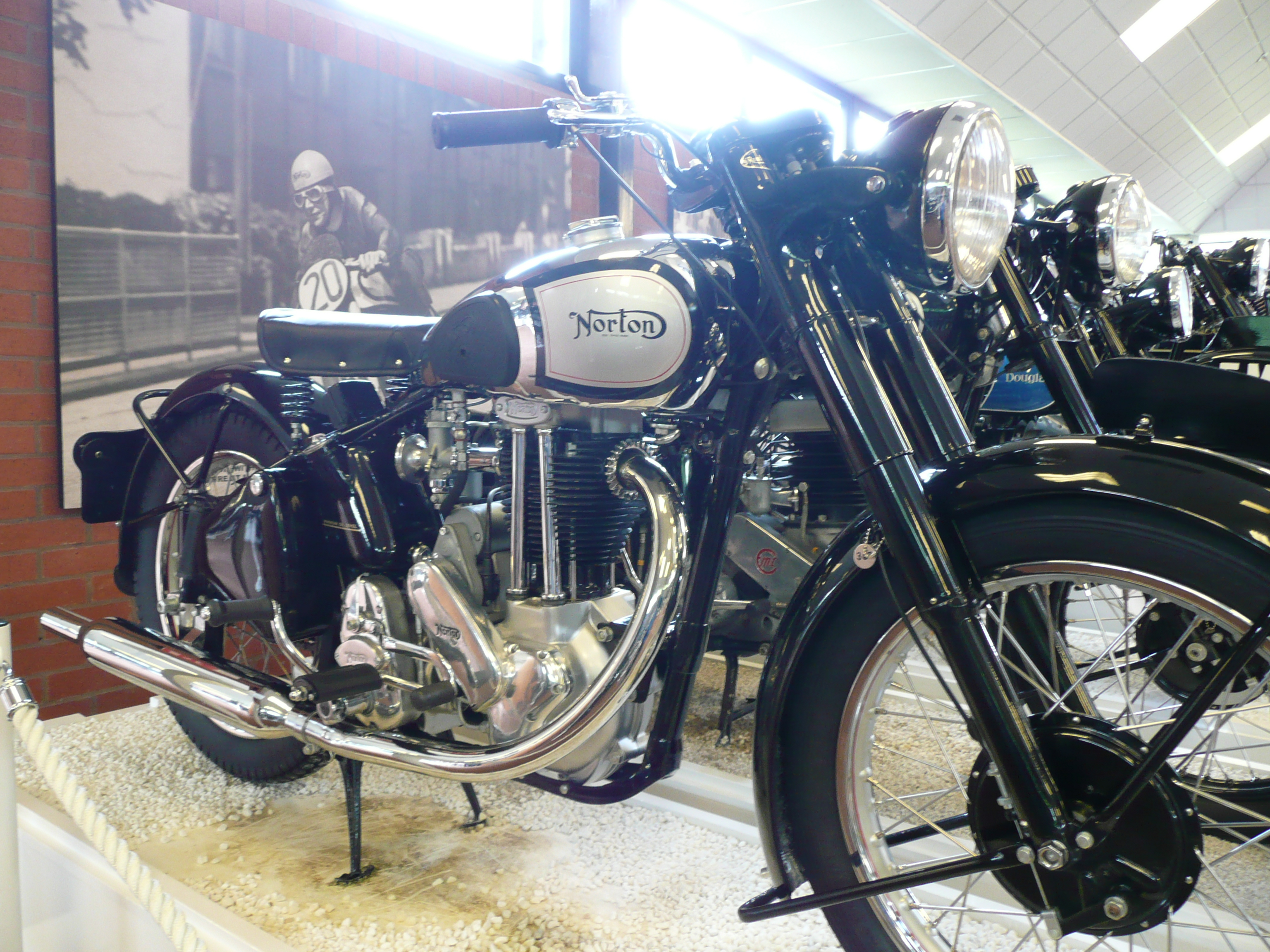 Norton ES2 motorcycle 1949 at the National Motorcycle Museum